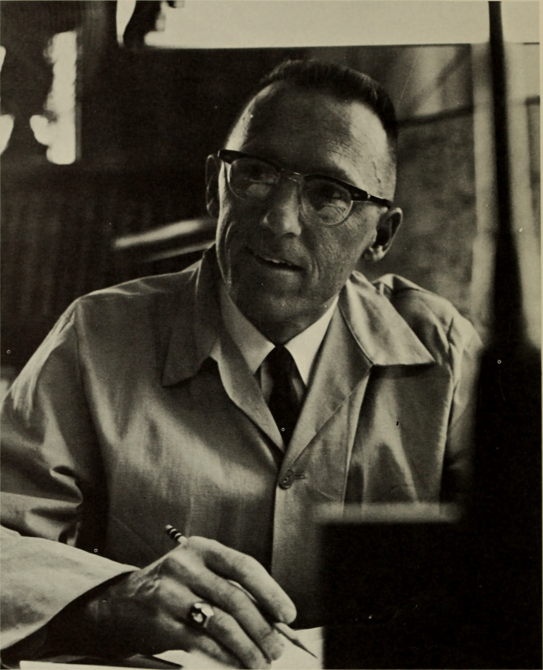 Title: A brief expedition into science at the American Museum of Natural History Identifier: briefexpeditioni00amer Year: 1969 (1960s) Authors: American Museum of Natural History Subjects: American Museum of Natural History; Naturalists; Natural history; Anthropology; Natural history museum curators Publisher: [New York? : The Museum?] Text Appearing Before Image: ' Text Appearing After Image: Wesley E. Lanyon Curator, Department of Ornithology Resident Director, Kalbfleisch Field Research Station Joined the Museum Staff in 1957 A.B., 1950, Cornell University Ph.D., 1955, University of Wisconsin Residence: Huntington, N.Y.